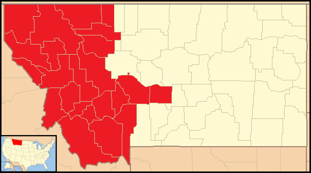 The Diocese of Helena in the Catholic Church encompasses the counties of western and central Montana, USA.